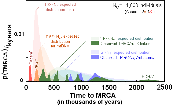 This figure is largely adopted from Schaffner SF, The X chromosome in population genetics. Nature Reviews -Genetics 2004:43-51. From figure box 3, panels b-top and bottom. Other data added on X-linked loci. TMRCAs all adjusted to fit 6MYA C/H LCA. This figure differs from Shaffer in the following ways: 1) haploid peak broken into two parts (as per: Wilder JA, Mobasher Z, Hammer MF. Genetic evidence for unequal effective population sizes of human females and males. Mol Biol Evol. 2004, Nov;21(11):2047-57.) male (more recent) and female (less recent). 2) For X-linked was 1.666 x Ne as per the above reference, instead of 1.5. 3) Shaffner used an 12,000 Ne population size, were as I use the size suggested by Tanahata, however each probability distributions are offset to the right by 75,000 years to deal with the effects of population expansion. 4) The TMRCA for mtDNA is added, as per Gonder et al. 2007 (194,000 years +/- 32,000 years) 5) PDHA1 gene is added, and two recently fixed X-linked genes are added at the recent edge of the probability distribution (for ascetic reasons the sites used in these two early studies were two few to establish good statistics and thus the TMRCA would be broad). HLA DRB1 locus and MX1 locus are not shown. The curves were generated computationally assuming that estimated fixation time as the Sum g * p(g) where g is the the number of generations past, and the generation time is 22 years as per gonder. Therefore parameters are set to achieve E = 2 * Ne and generation data (following 2N rule) was output on excel (excluded and fixed).